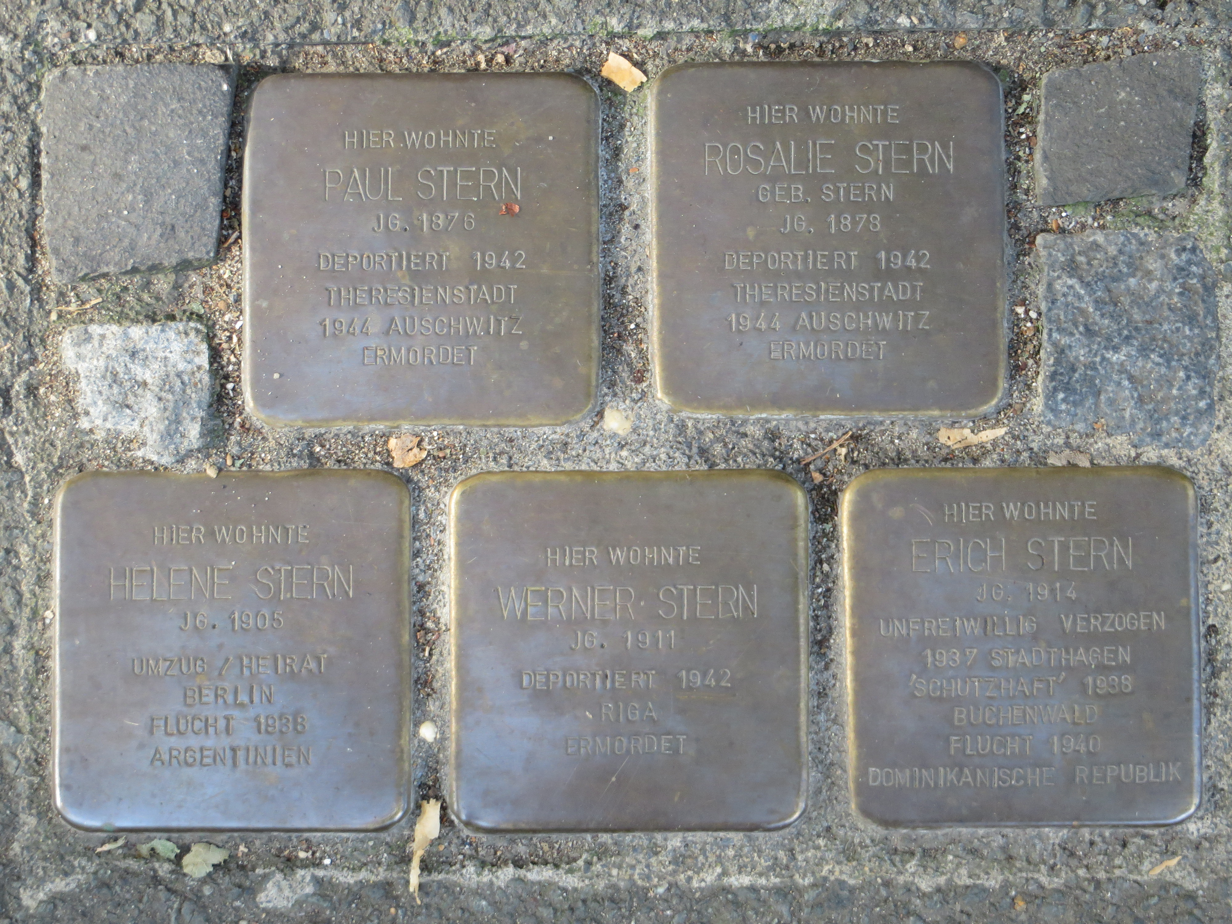 Stolpersteine at house Kreisstraße 3 in Witten, Germany